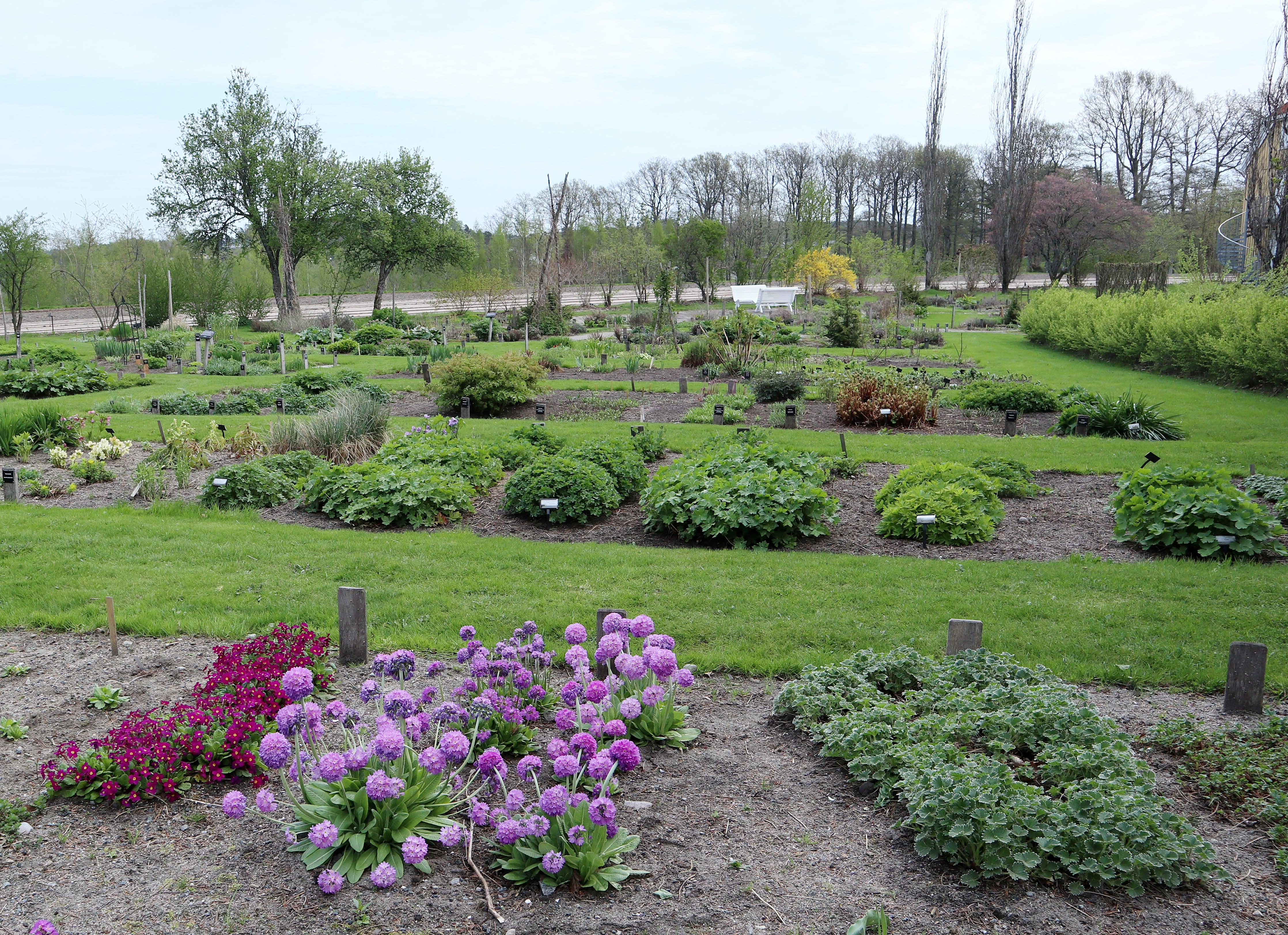 Dømmesmoen Grimstad